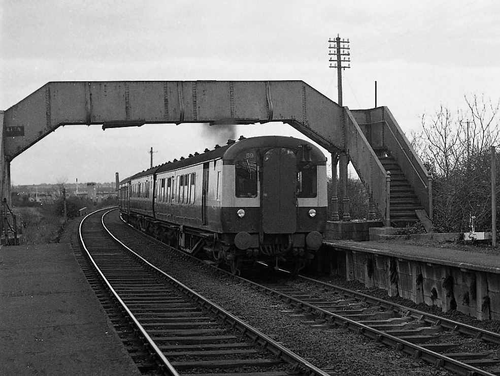 Train at Mount station - 1978 (2)